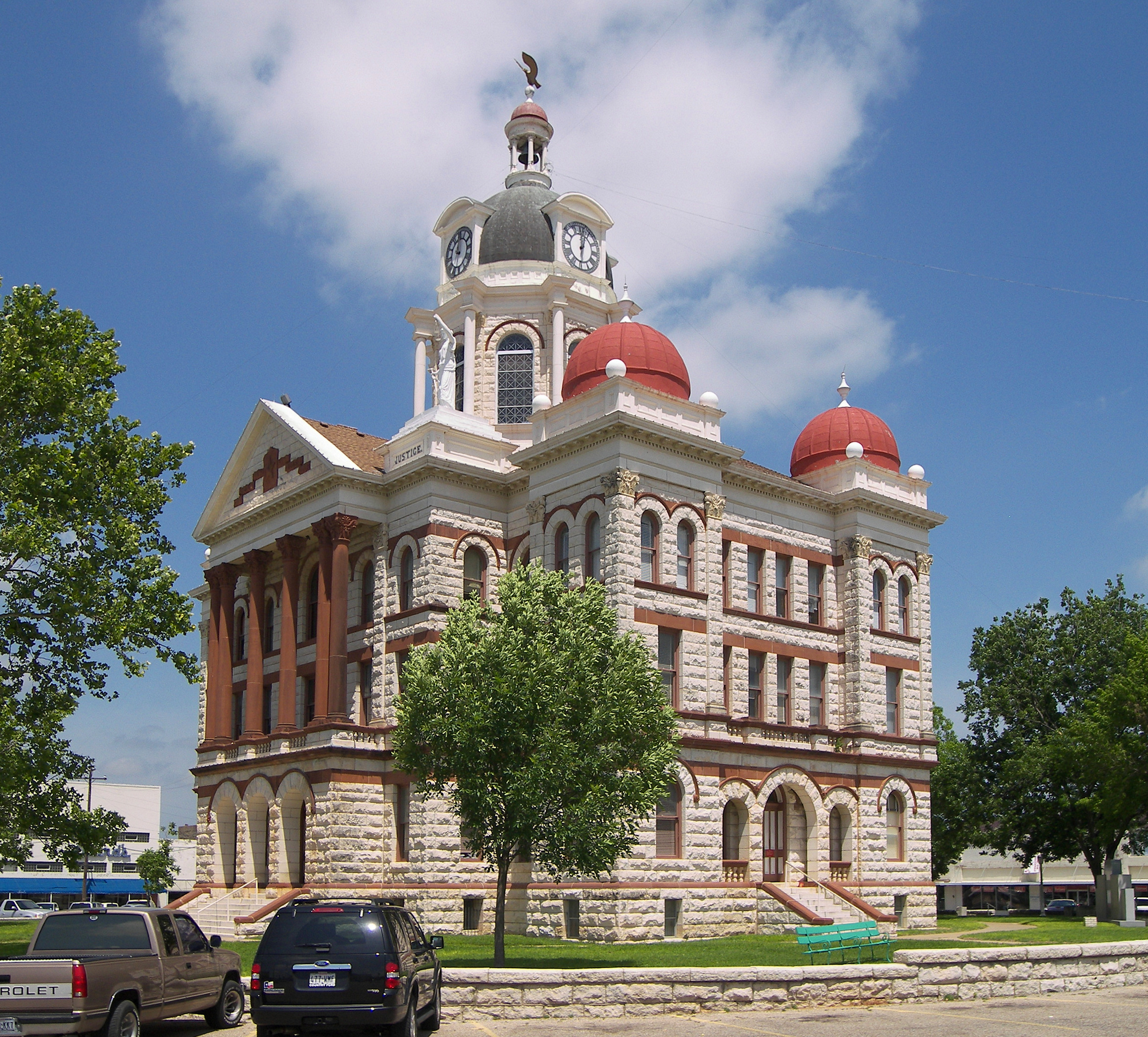 The Coryell County, Texas courthouse in Gatesville, Texas, United States. The courthouse was built in 1897-1898 out of limestone and red sandstone. The courthouse and surrounding historic district were listed on the National Register of Historic Places on August 18, 1977.